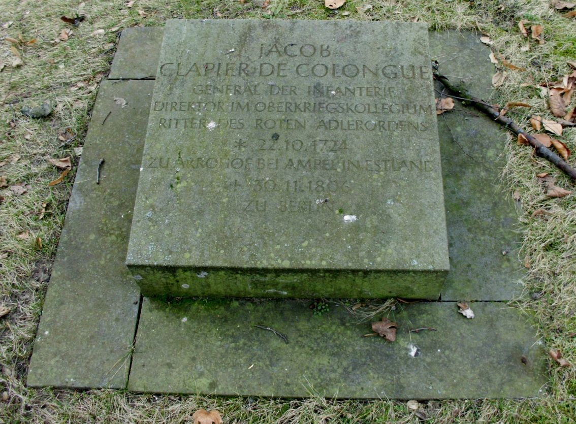 Grave of Jacob Clapier de Colongue